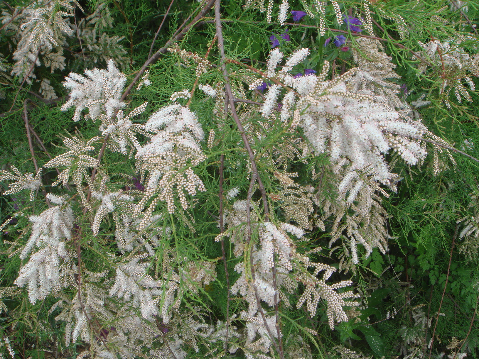 Tamarisk, Spain, Ceuta.